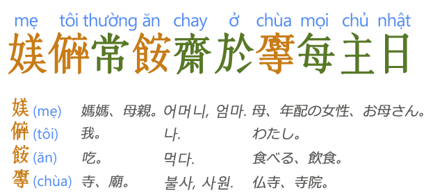 Sentence example used to describe Vietnamese language vocabulary. The orange colour words represent native Vietnamese words, whilst the green words represent those belonging to the Sino-Vietnamese vocabulary.